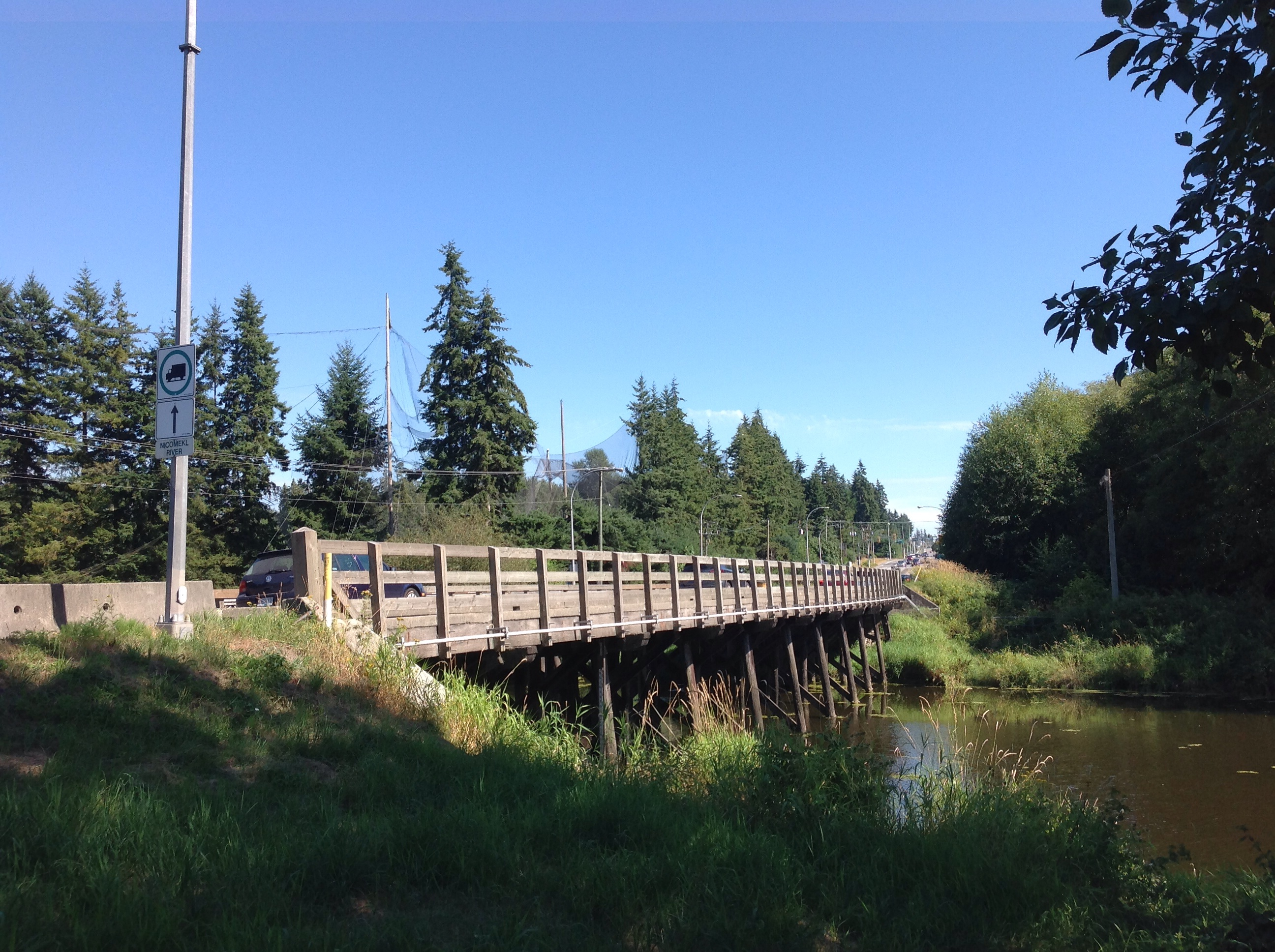 King George Boulevard bridge over Nicomekl River in Surrey, British Columbia, Canada